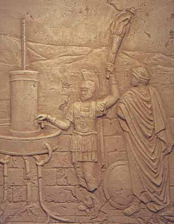 A relief of the Greek hydraulic telegraph of Aeneas, depicting one half of a telegraph system. The soldier holding the raised torch is watching the descent of a floating message indicator stick (which is marked with message codes) as water is released from the reservoir chamber the stick is floating in. When the float indicator reaches the appropriate level (corresponding to a certain predetermined message), the soldier's flame will be hidden or extinguished. On the distant hill shown near the top left of the relief, an observer with an identical hydraulic chamber is observing the flame, and waiting for it to be extinguished, at which time that reservoir spout will be closed and the message read from the identical floating message indicator stick.